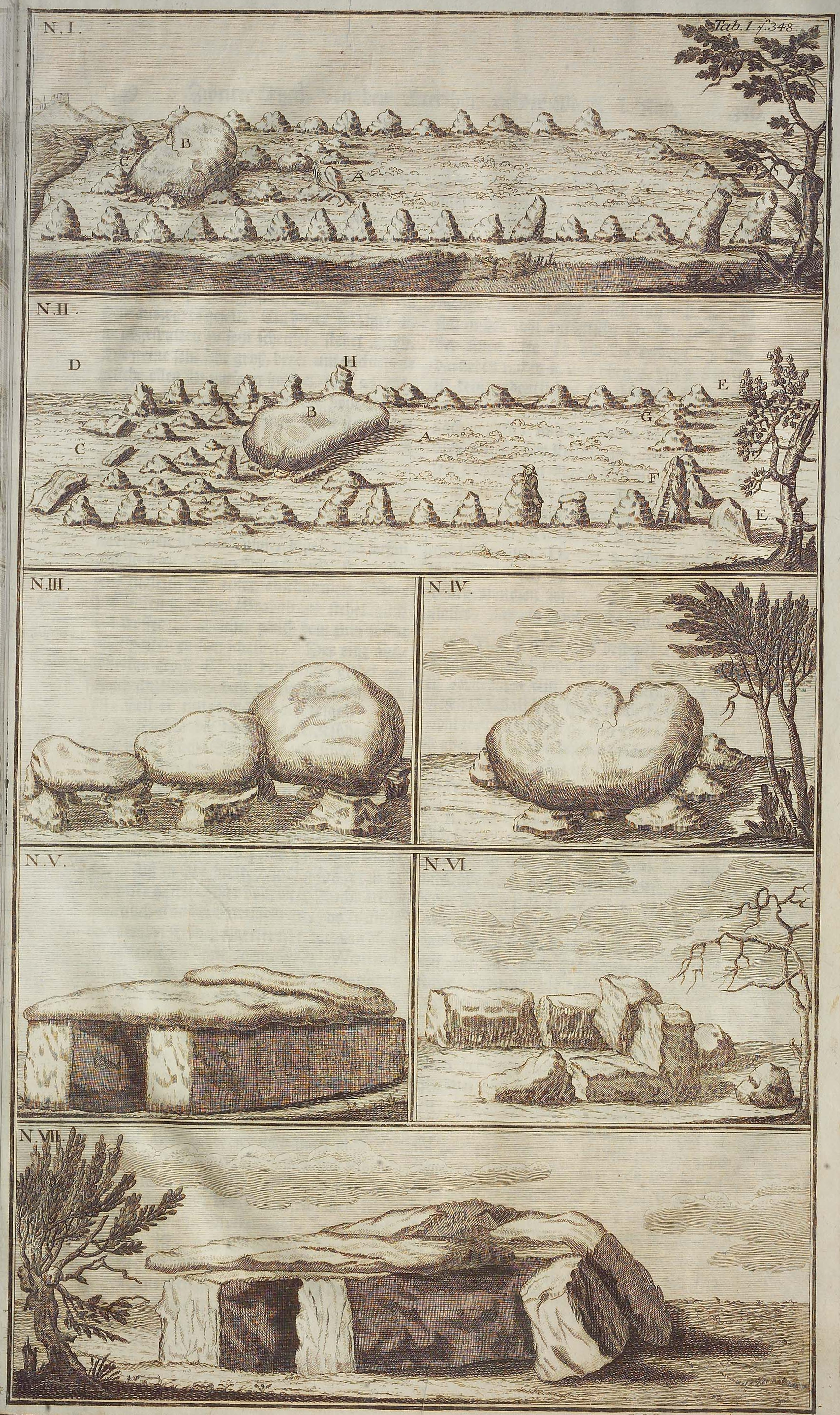 Some dolmens of the Altmark, depicted in Johann Christoph Bekmann, Bernhard Ludwig Bekmann: Historische Beschreibung der Chur und Mark Brandenburg nach ihrem Ursprung, Einwohnern, Natürlichen Beschaffenheit, Gewässer, Landschaften, Stäten, Geistlichen Stiftern etc. [...]. Vol. 1, Berlin 1751